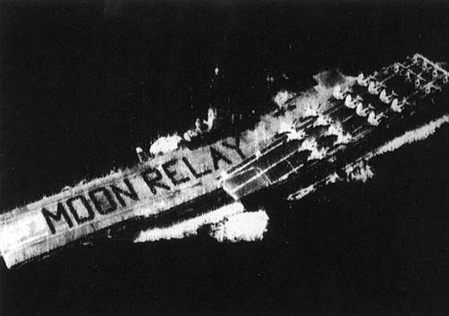 Facsimile picture of the USS Hancock (CV-19) with ship officers and crew spelling out "Moon Relay." This picture was transmitted via the Moon from Honolulu, Hawaii, to Washington, D.C., on 28 January 1960.